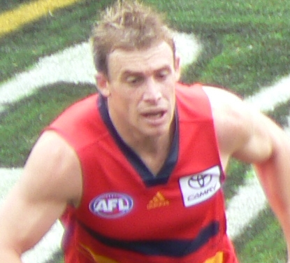 Simon Goodwin, Australian rules footballer